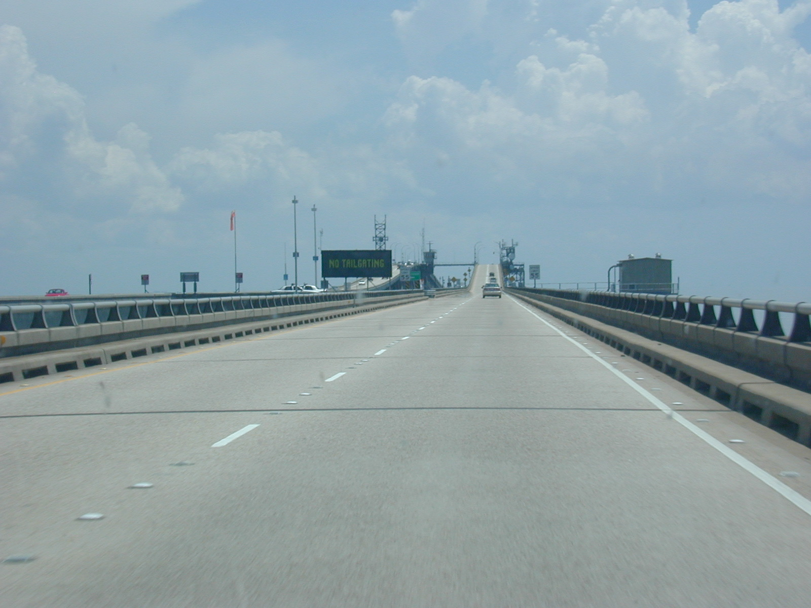 Lake Pontchartrain Causeway, direction south. approaching the bascule.